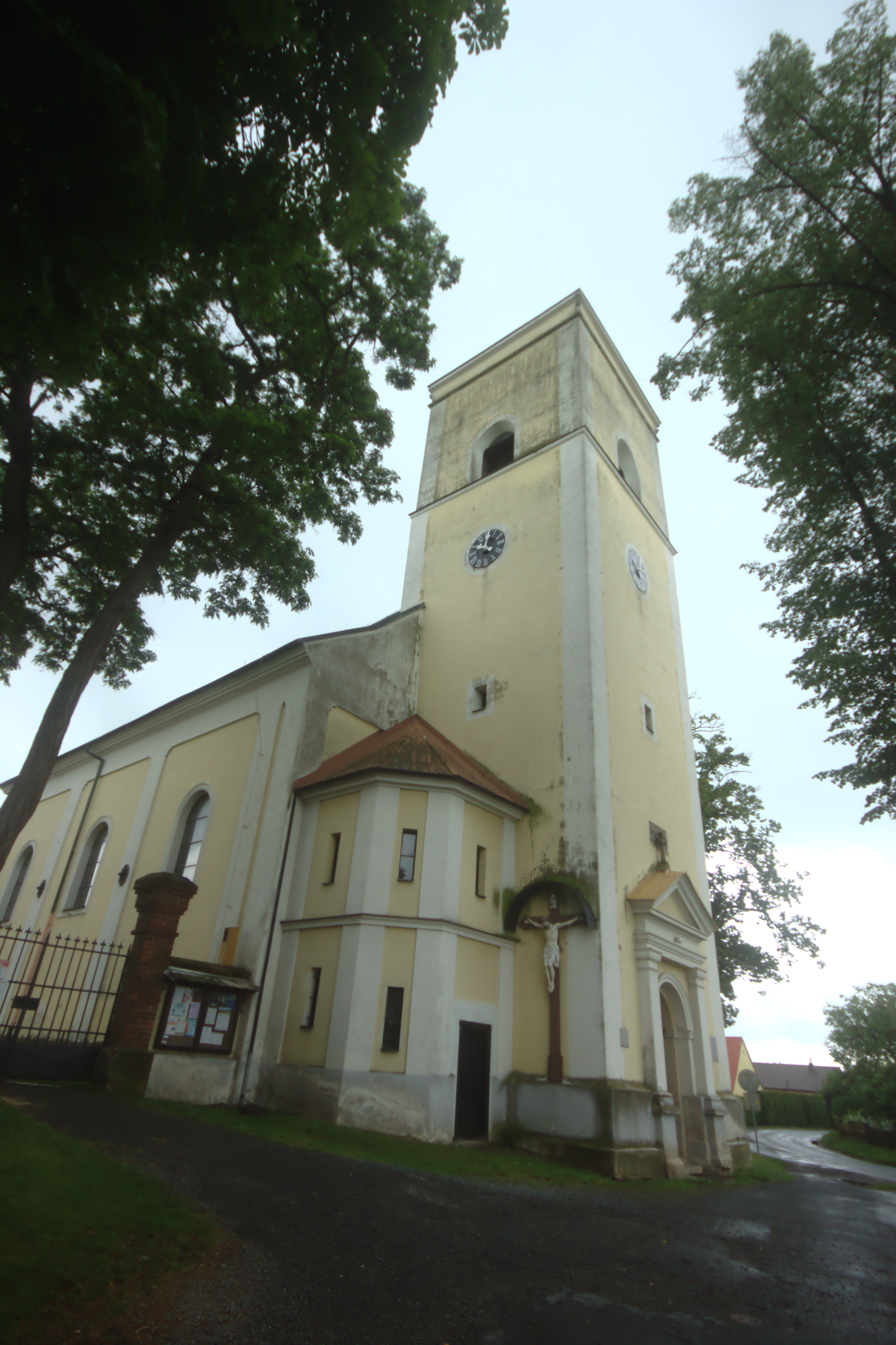 Church tower in Újezd, Olomouc Region, CZ